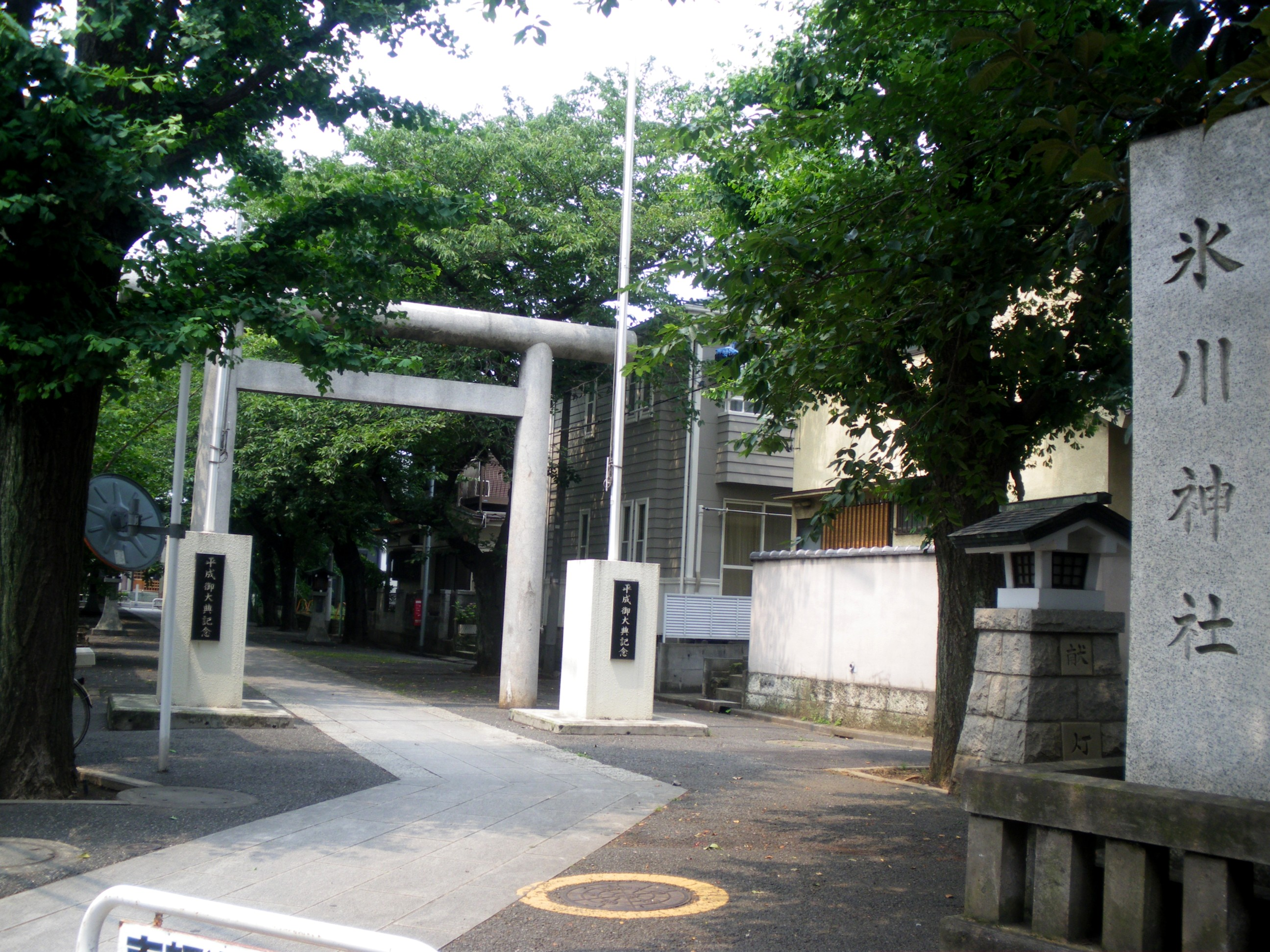 Hikawa Jinja(Ikebukurohoncho,Toshima,Tokyo)